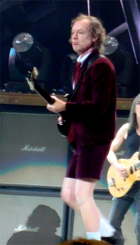 Angus Young during the 22 february show in Stockholm, Sweden, 2009.